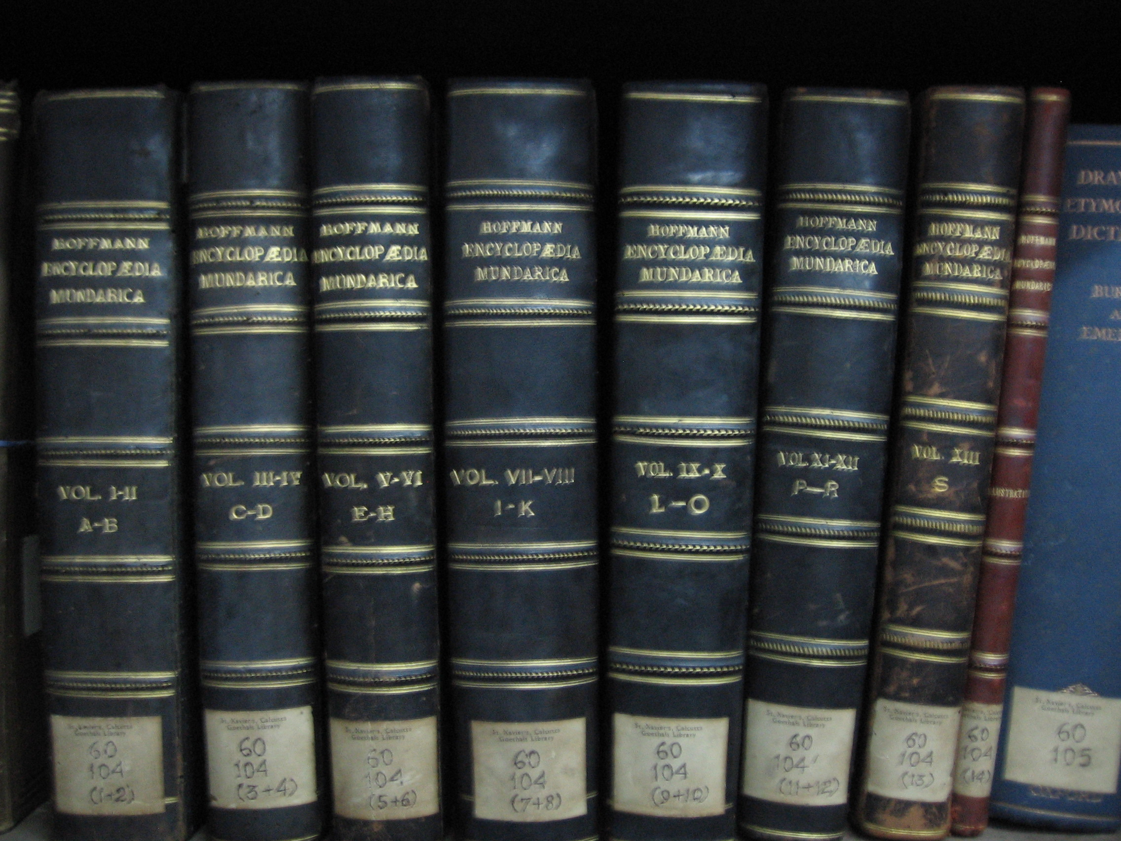 The Encyclopedia mundarica' of Jesuit father John-Baptist Hoffmann (15 Volumes) contains all that was known on the Munda tribe (central India). Published from 1930 to 1937.